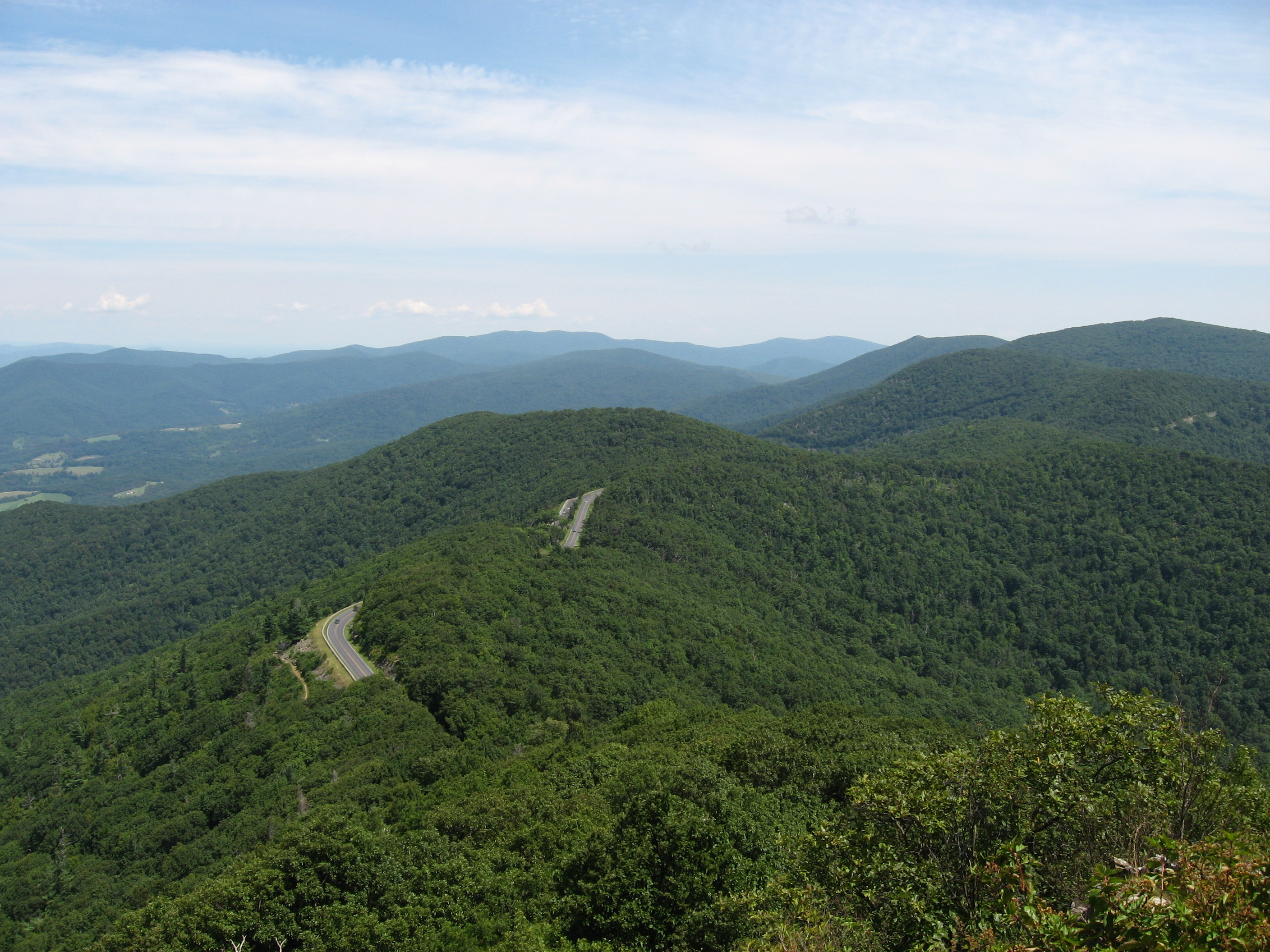 North from Little Stony Man in Shenandoah National Park, Virginia